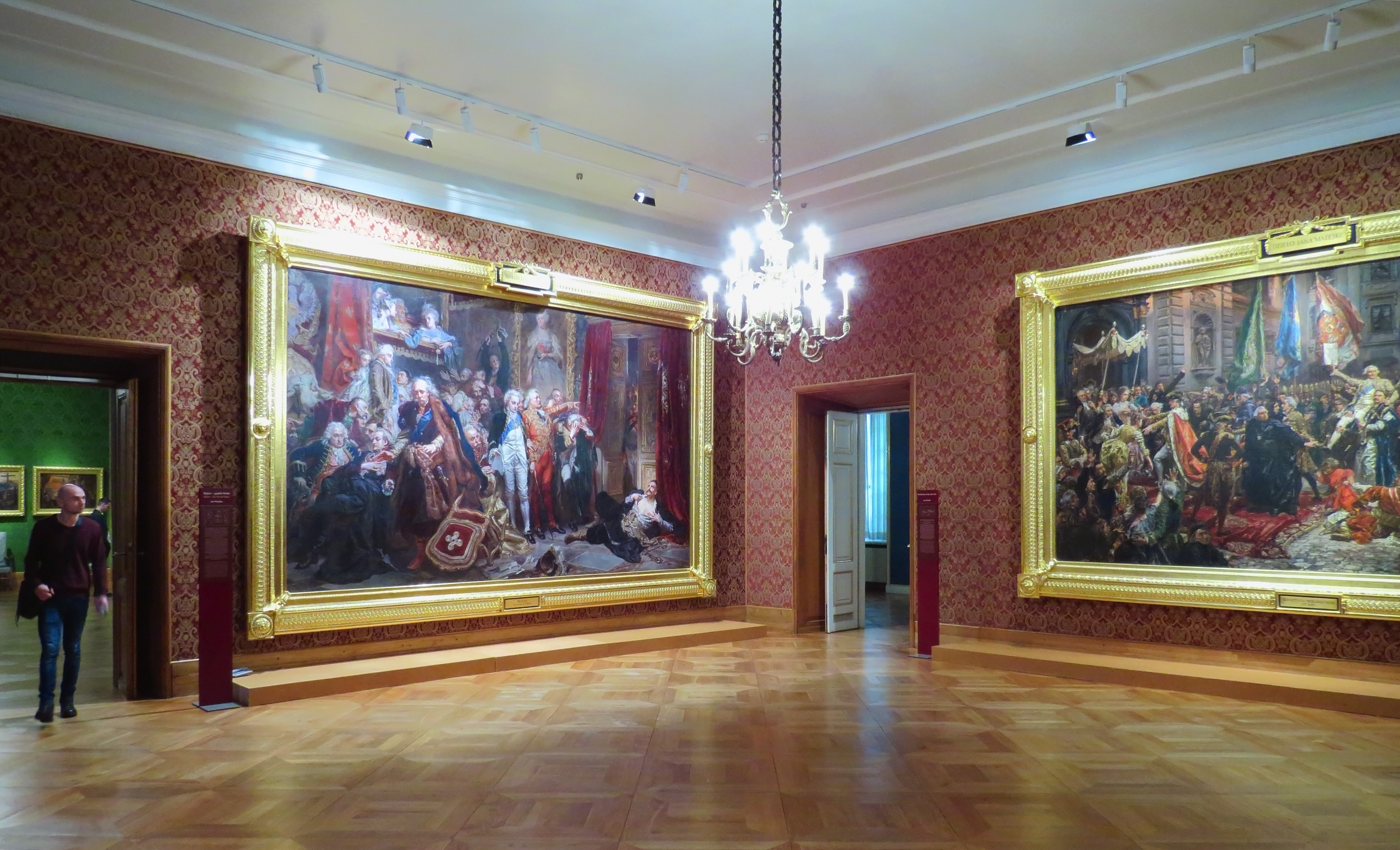 Royal Castle in Warsaw. The Crown Prince's Rooms